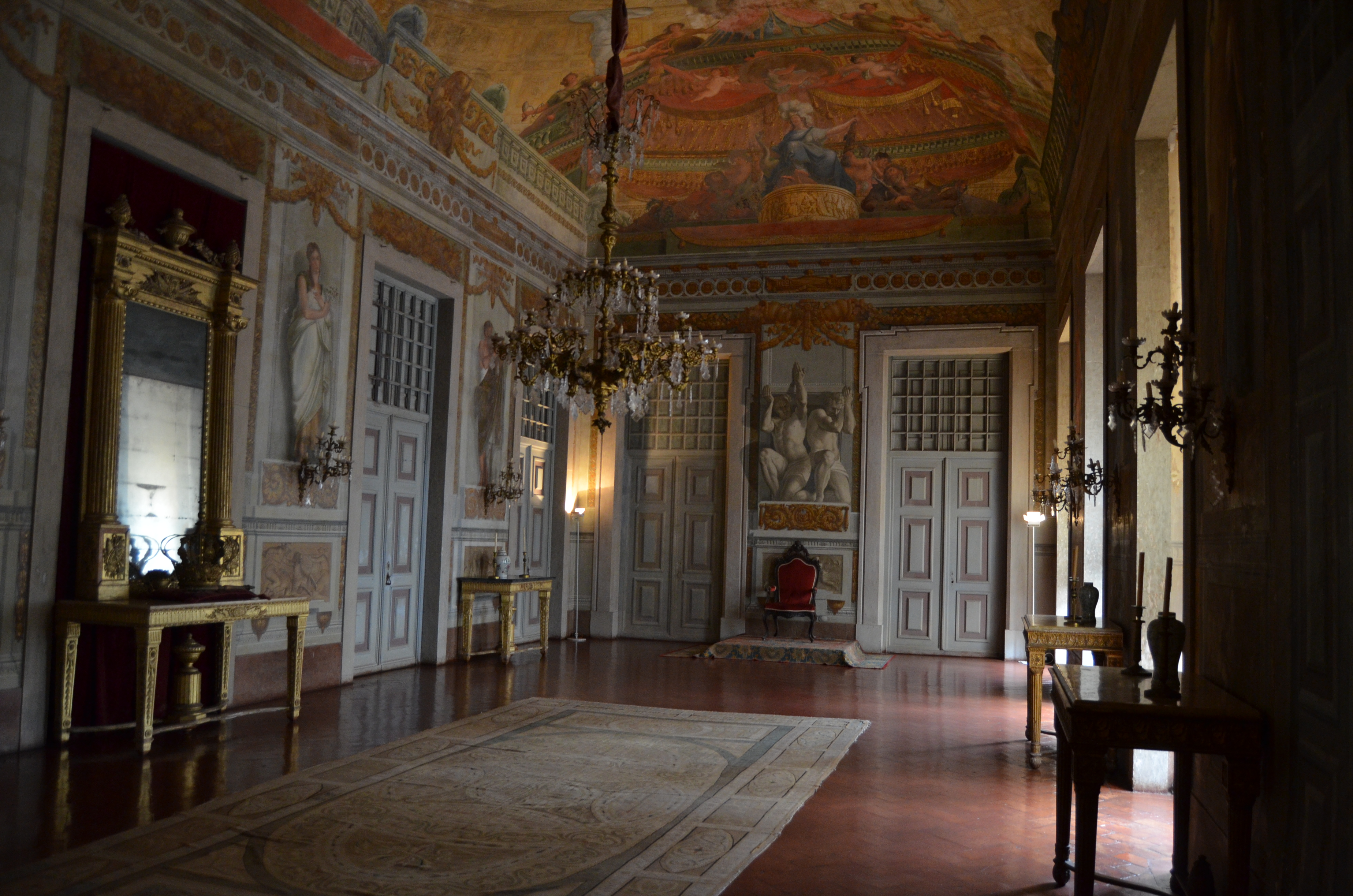 At the royal chambers I